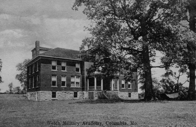 Scanned postcard of the Welch Military Academy, postmarked in 1907.